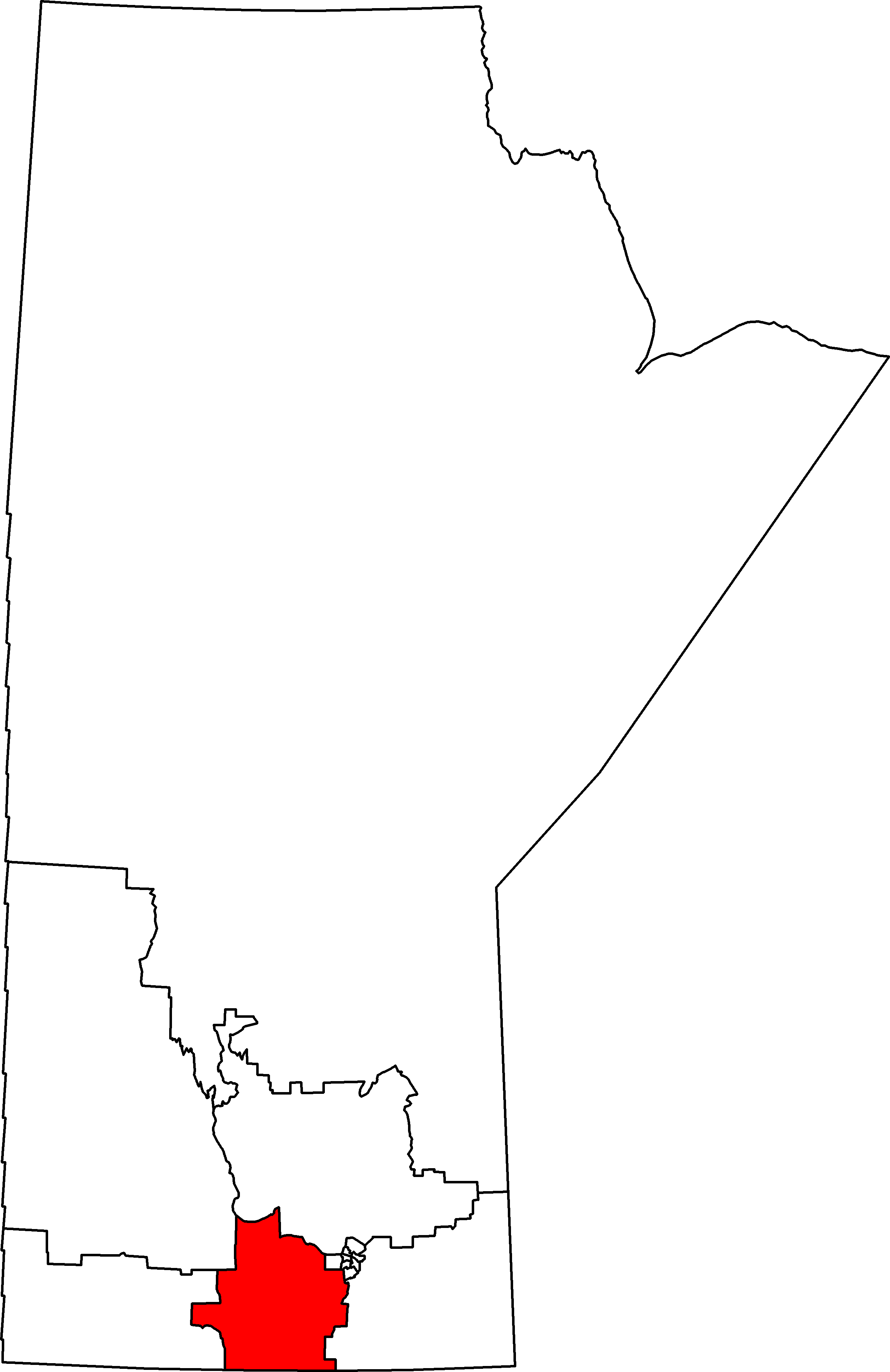 Federal Electoral District in Manitoba, Canada as of the 2013 Representation Order.